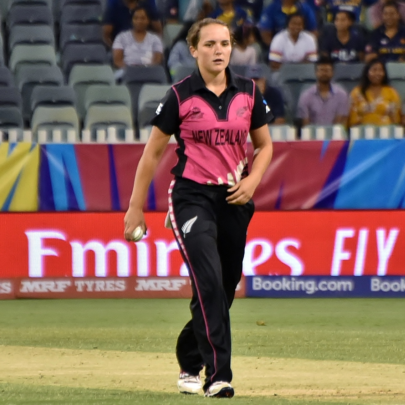 Amelia Kerr bowling for New Zealand against Sri Lanka during their 2020 ICC Women's T20 World Cup match at the WACA Ground in Perth, Australia